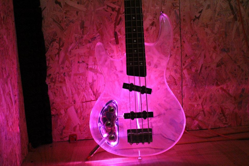 Picture of a BassCat Bassmade from Poly(methyl methacrylate)